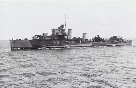 AWM caption : "PORT SIDE VIEW OF THE DESTROYER HMS HOTSPUR (H01). SHE IS PAINTED IN AN UNOFFICIAL CAMOUFLAGE SCHEME, THE COLOURS PROBABLY 507A, THE DARKER GREY, AND 507C, THE LIGHTER. HER AFTER TORPEDO TUBES HAVE BEEN REPLACED BY A 12 POUNDER AA GUN."